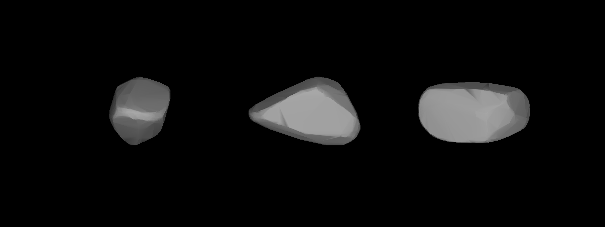 A three-dimensional model of 1747 Wright that was computed using light curve inversion techniques.